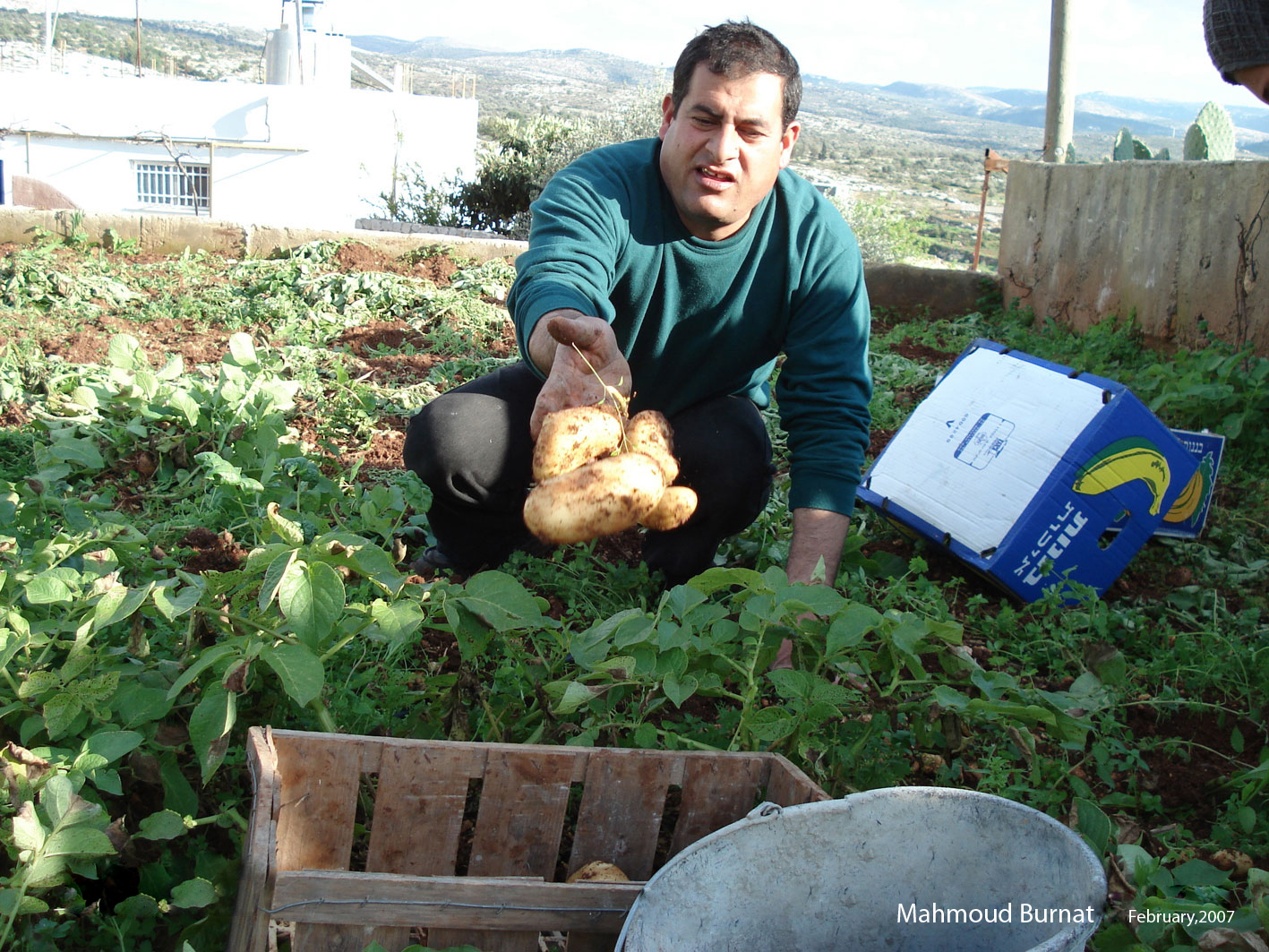 a farmer from Bi'in , a village of Palestine